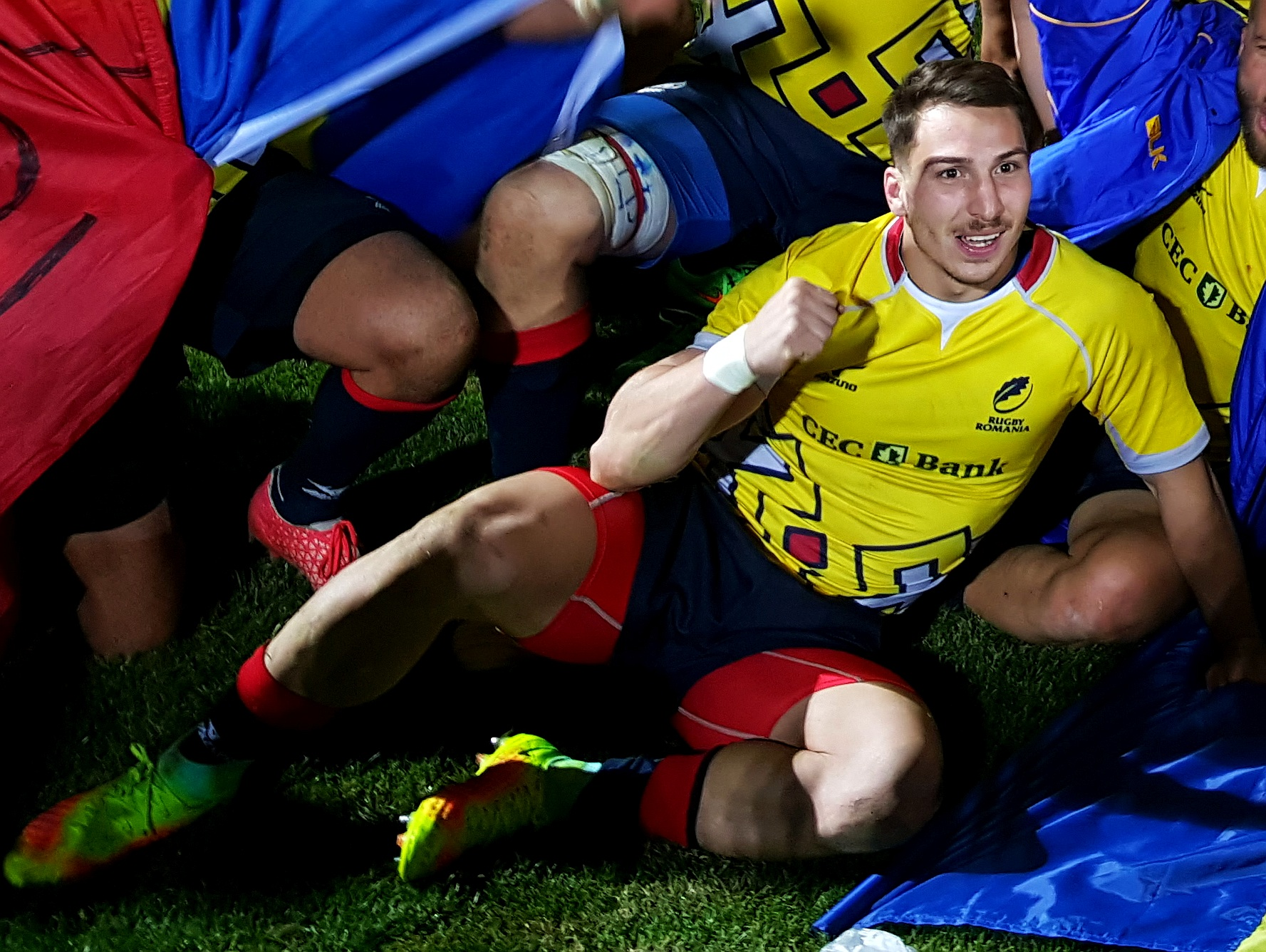 Ionuț Dumitru of Romania National Rugby Team after a test match against United States National Rugby Team in November 2016